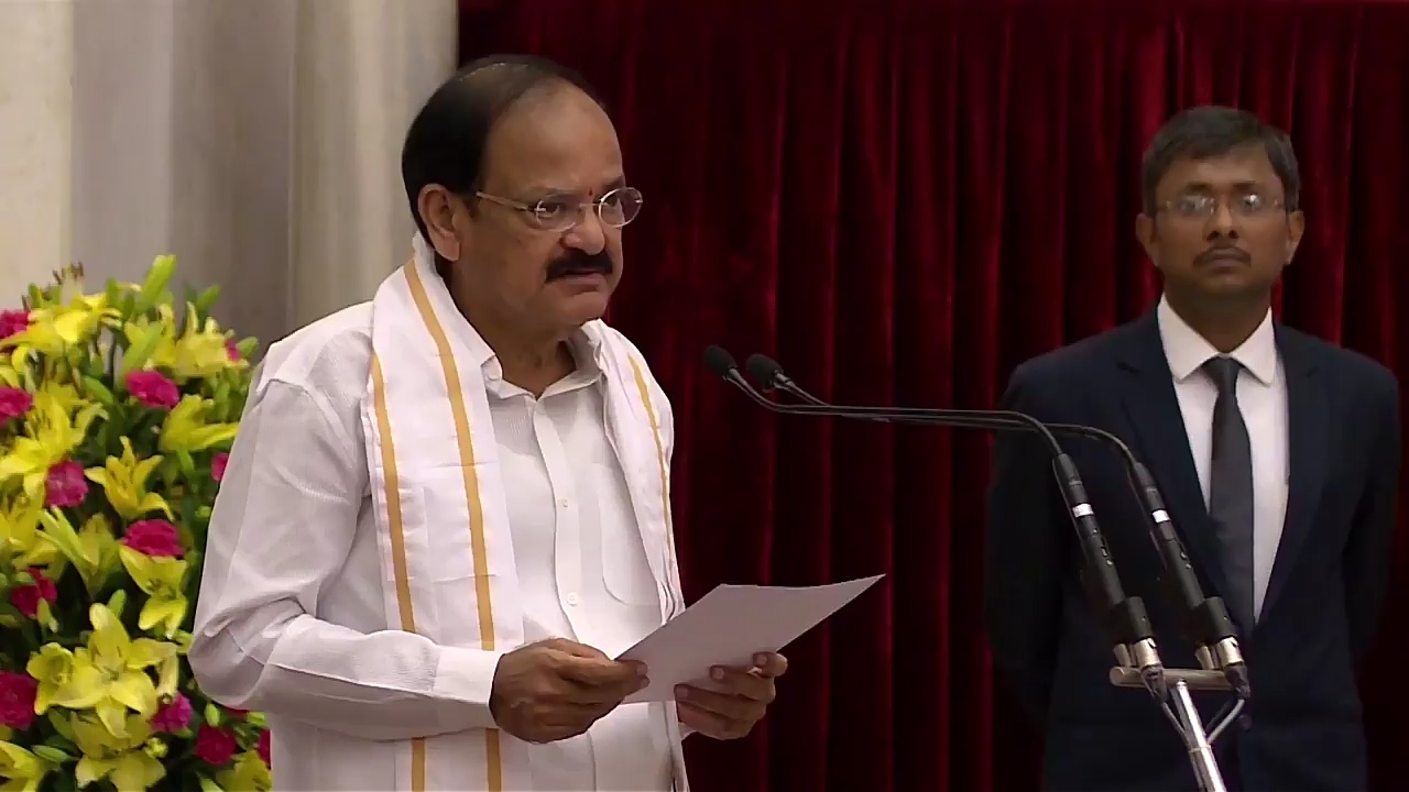 President administering the oath of office of the Vice President of India